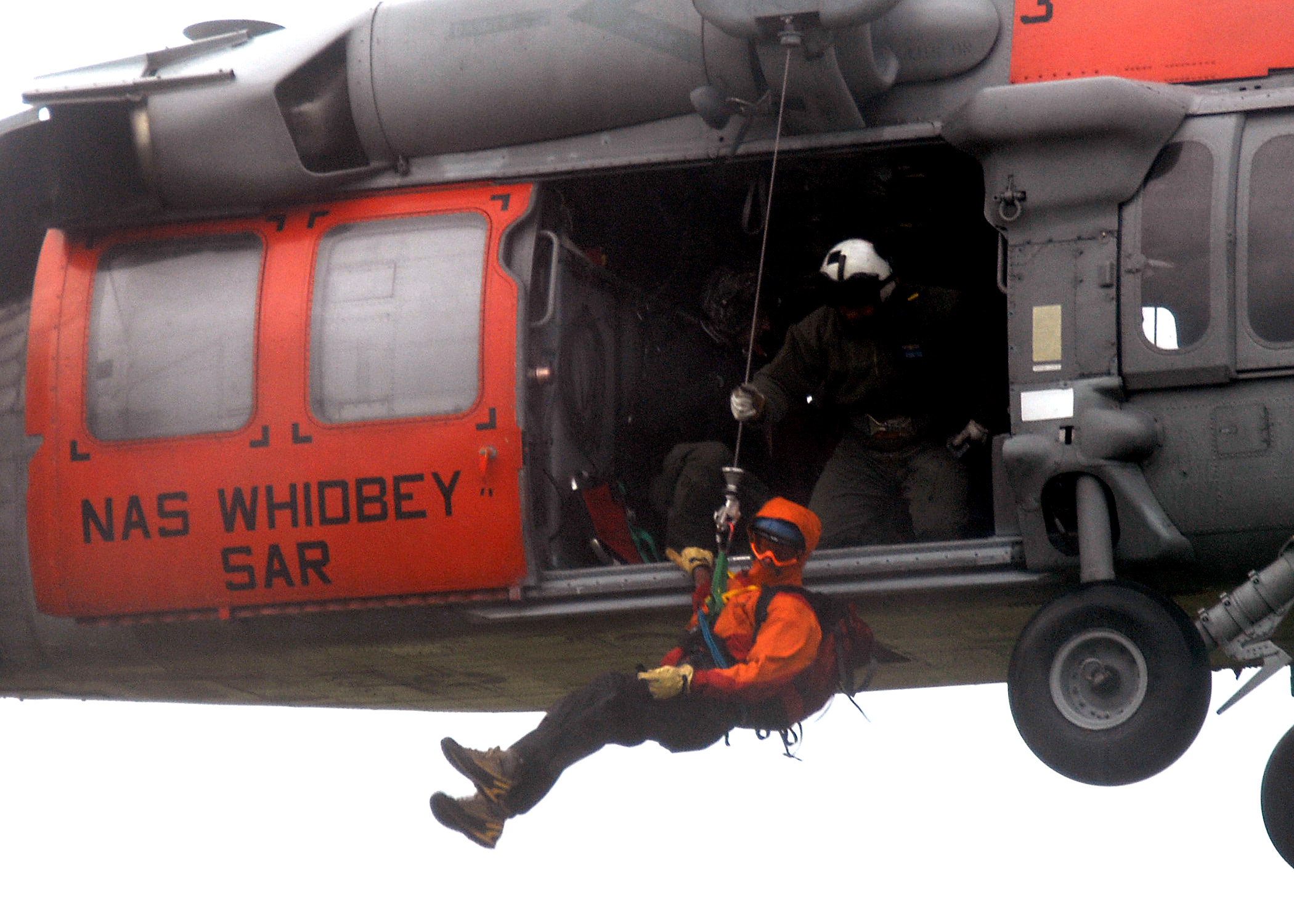 BELLINGHAM, Wash. (May 5, 2009) Naval Aircrewman 1st Class Chad Lewis, assigned to Naval Air Station Whidbey Island Search and Rescue, guides a Bellingham Mountain Rescue Council volunteer during hoist rescue operations training at Bellingham International Airport. Whidbey Island SAR crewmembers trained 20 Bellingham Mountain Rescue Council volunteers on procedures and safety precautions during the annual helicopter rescue and hoist operations training event. (U.S. Navy Photo by Mass Communication Specialist 2nd Class Tucker M. Yates/Released)